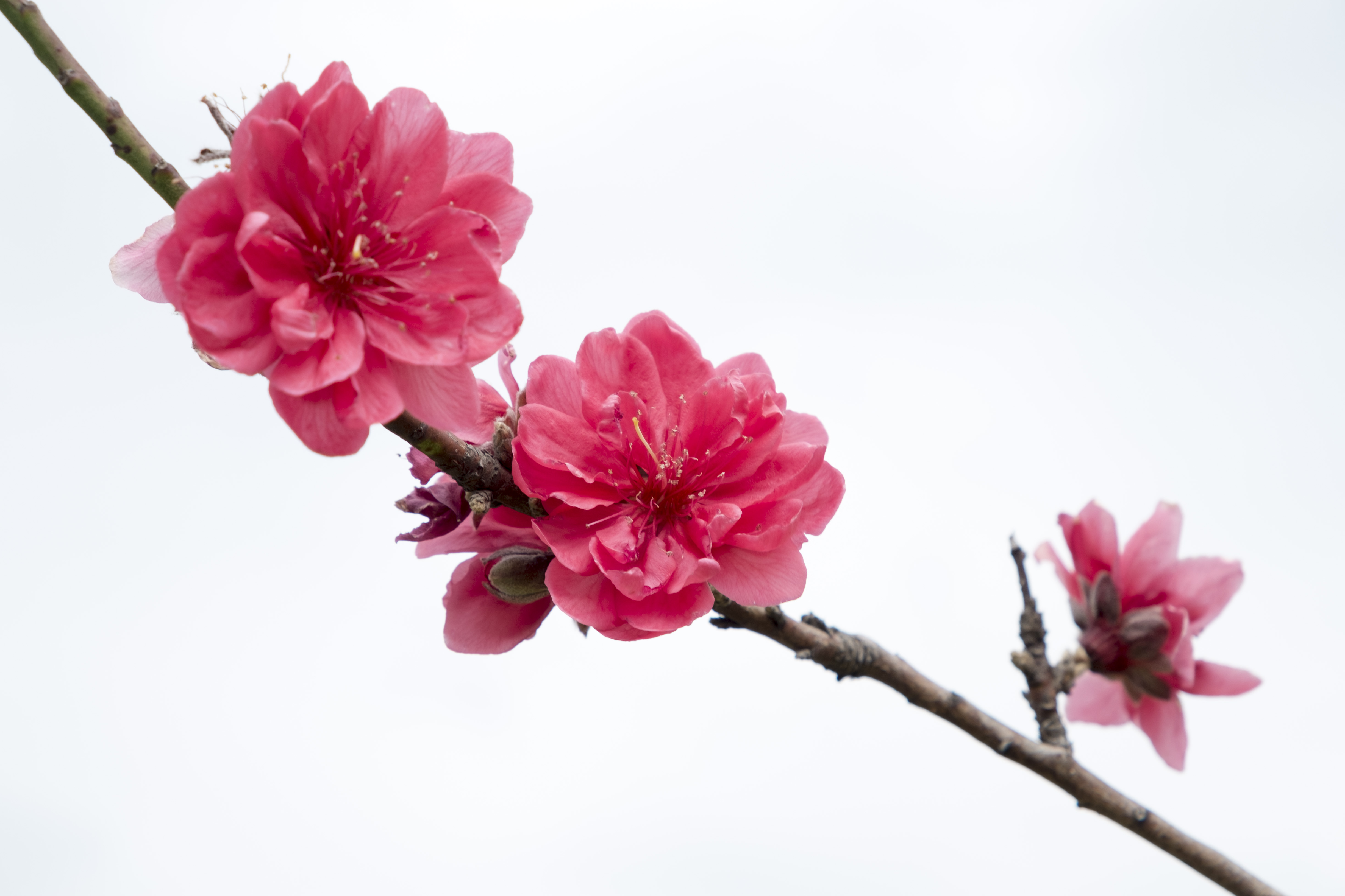 Pink peach blossom in Dongguan, China